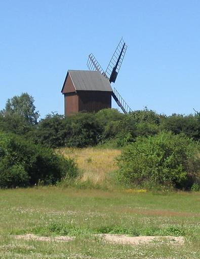 Post mill Borne. Built in 1803, restored in 1994. The village Borne is an incorporated part of Belzig, the central town of the district Potsdam-Mittelmark in the state Brandenburg of Germany. Belzig appertains to the natural preserve Naturpark Hoher Fläming.